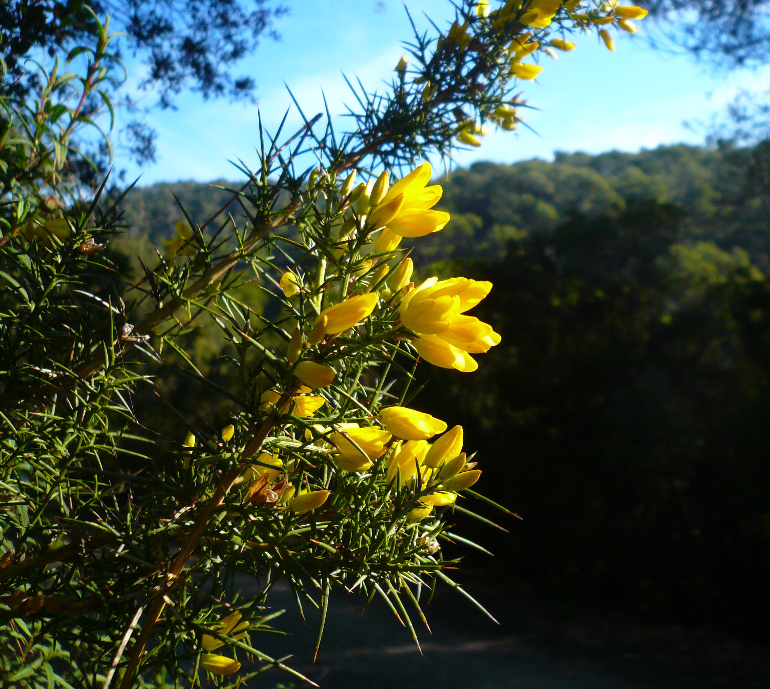 Ulex parviflorus in Barcelona